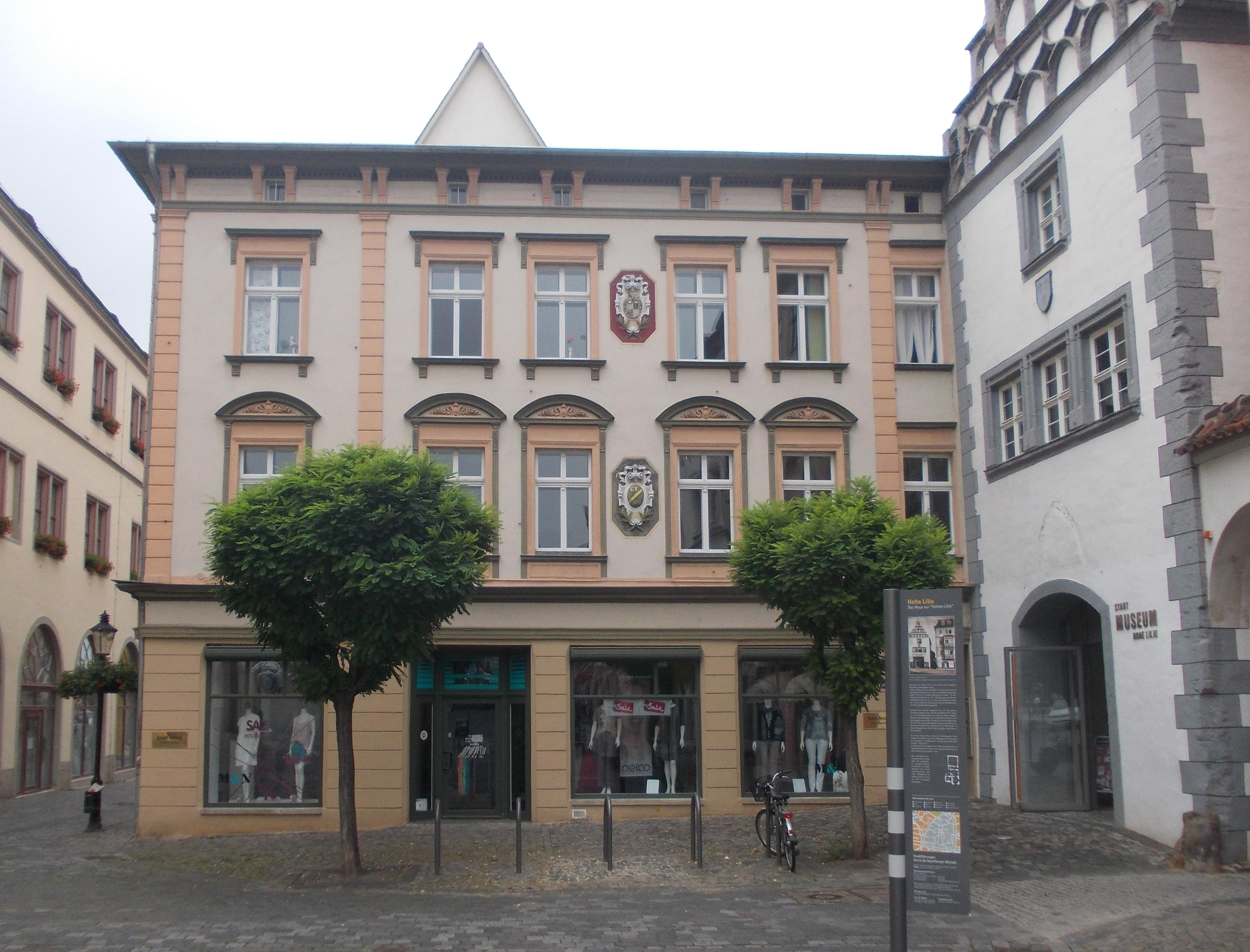 No. 19, Market square in Naumburg (district: Burgenlandkreis, Saxony-Anhalt)